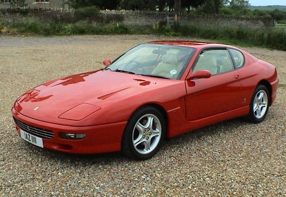 Ferrari 456GT